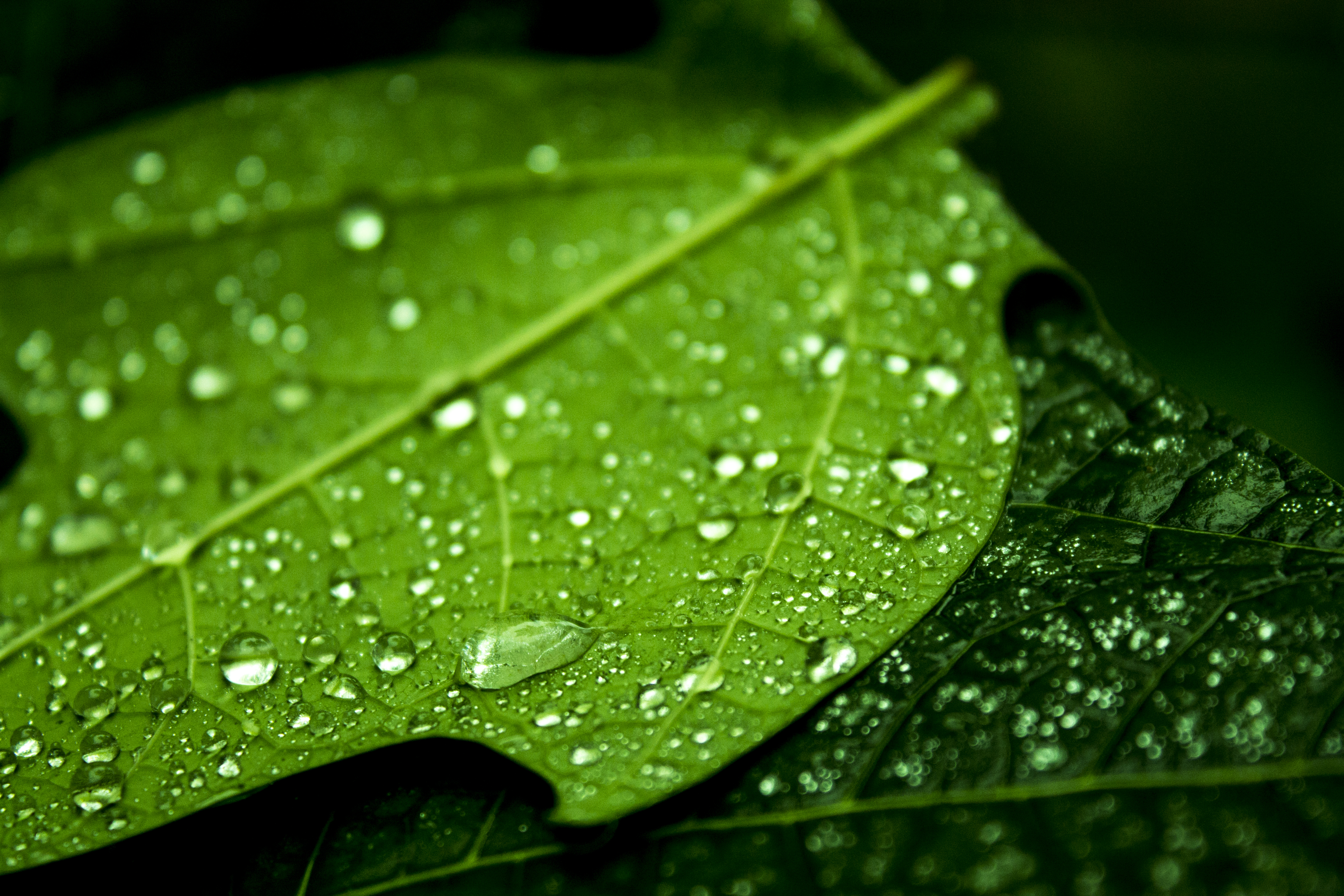 Morning drops on a leaf